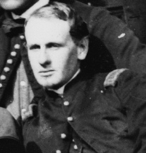 First Lieutenant Carle A. Woodruff, 1863.